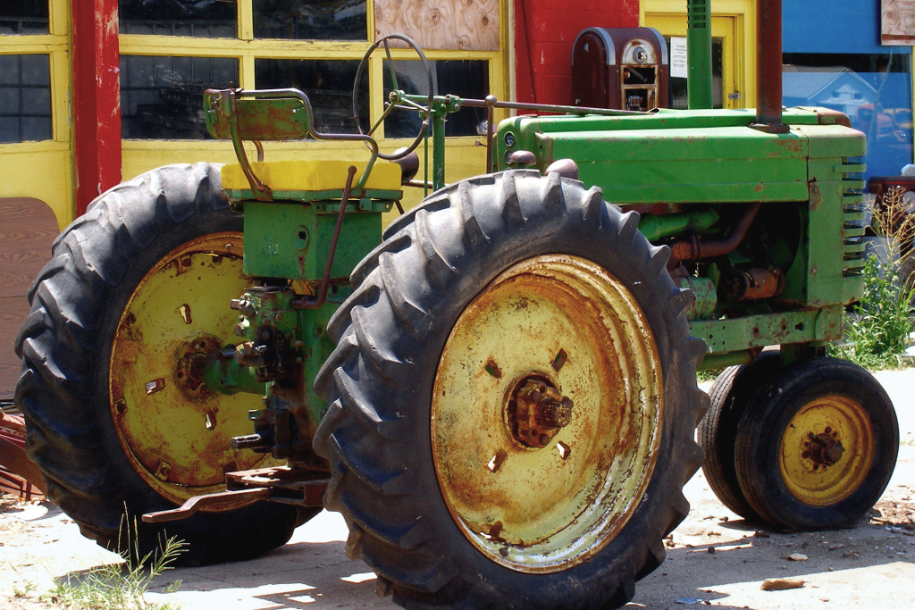 Cawker City, Kansas, USA, green and yellow tractor at an abandoned gas/service station